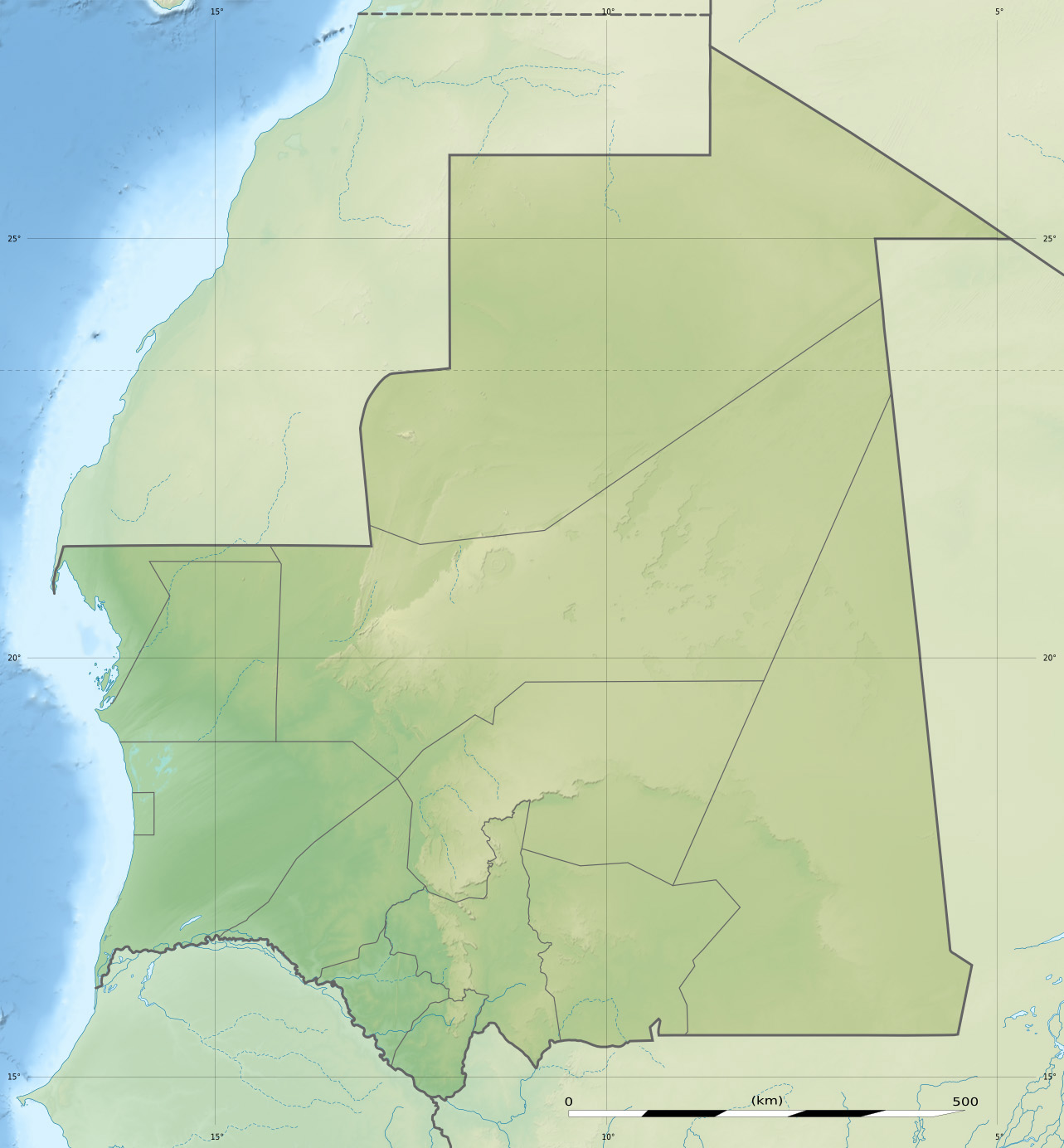 Blank physical map of Mauritania, for geo-location purposes.